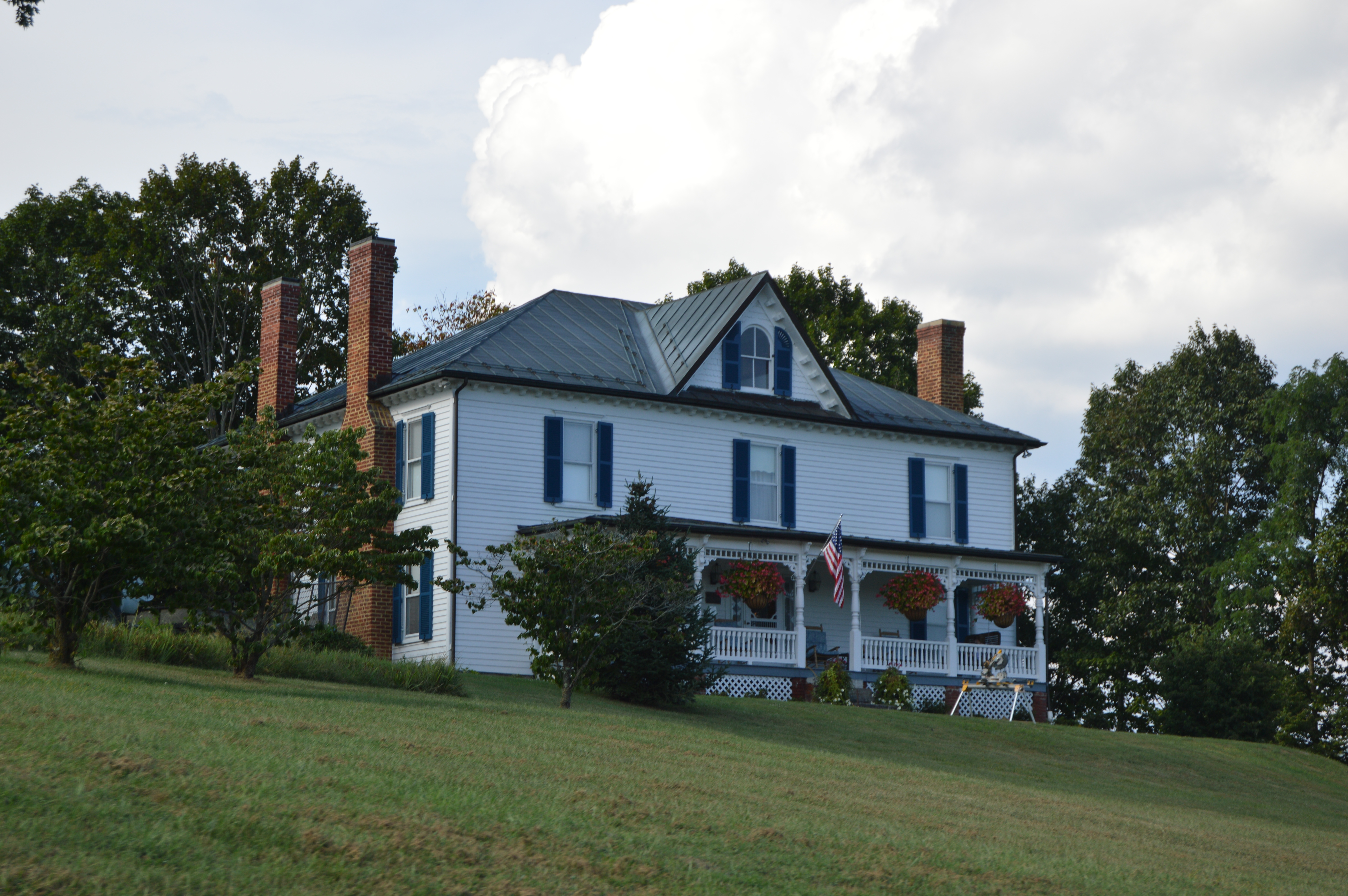 Front of the Fudge House, located at 620 Parklin Drive in Covington, Virginia, United States. Built in 1910, it is listed on the National Register of Historic Places.